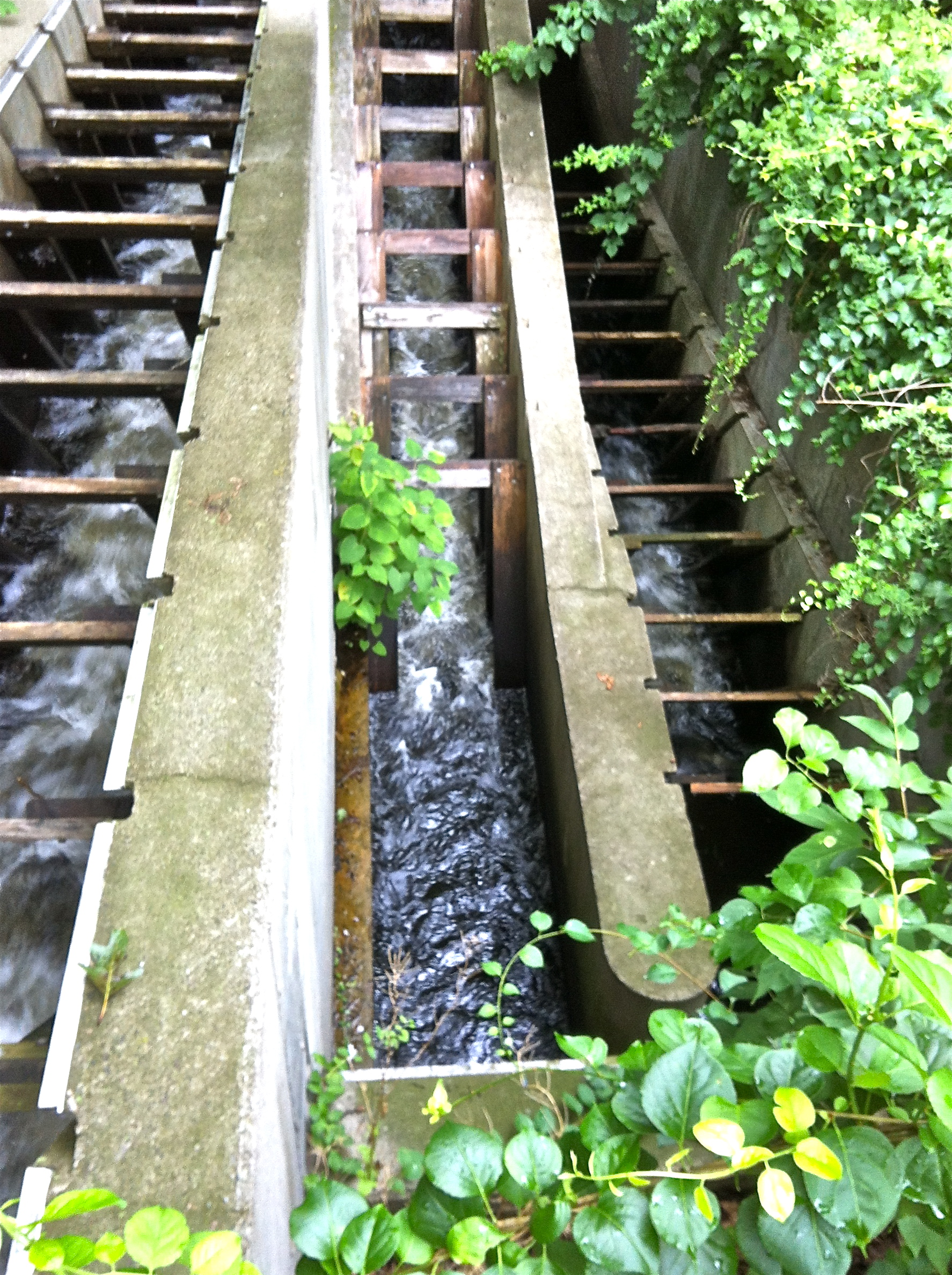 Double switchback fish ladder for herring runs on upper Weymouth Back River below Whitmans Pond.